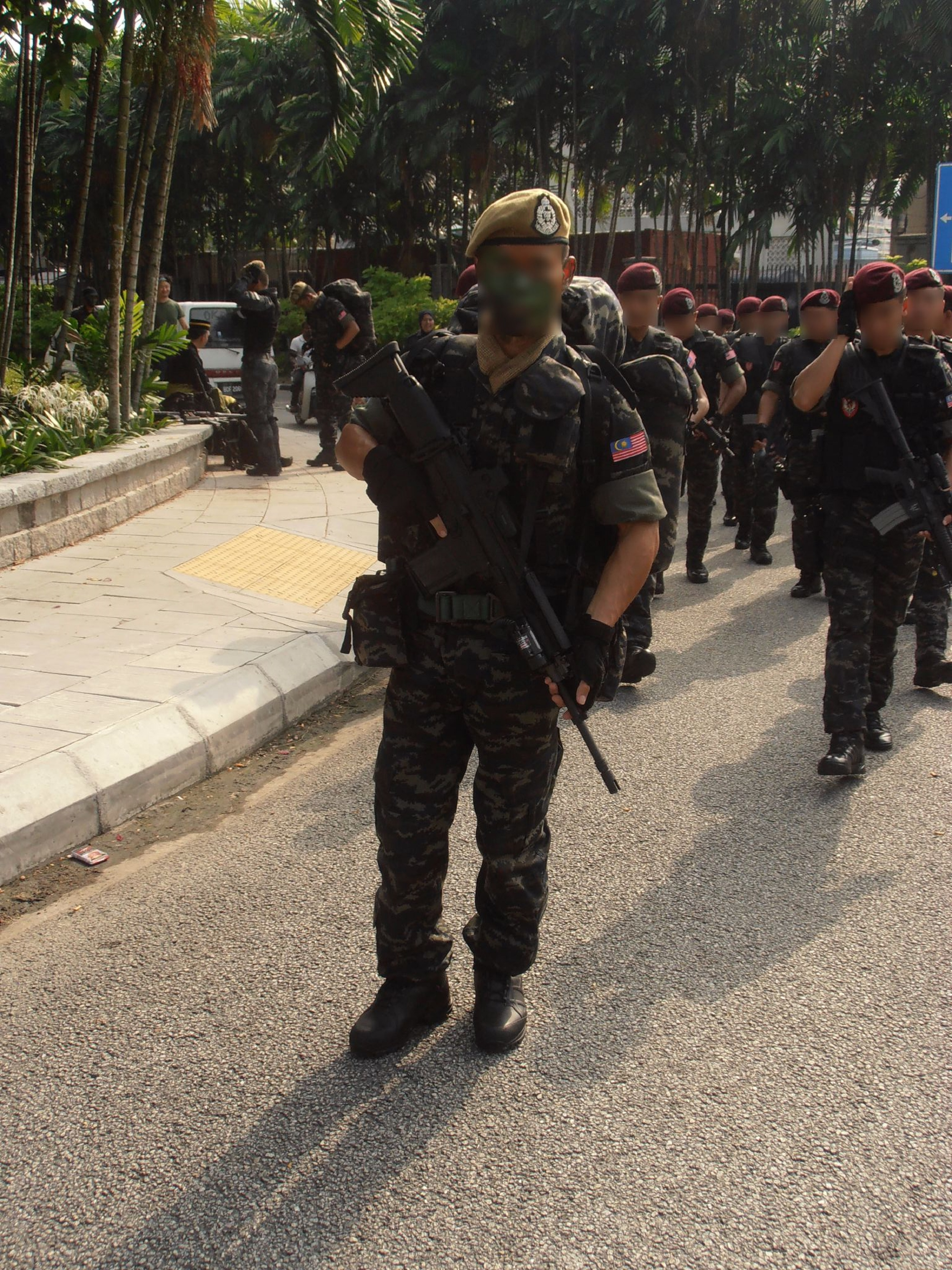 Officer of 69 Commando of Pasukan Gerakan Khas with his FN SCAR-H on standby during the 60th National Day Parade of Malaysia at Merdeka Square, Kuala Lumpur.